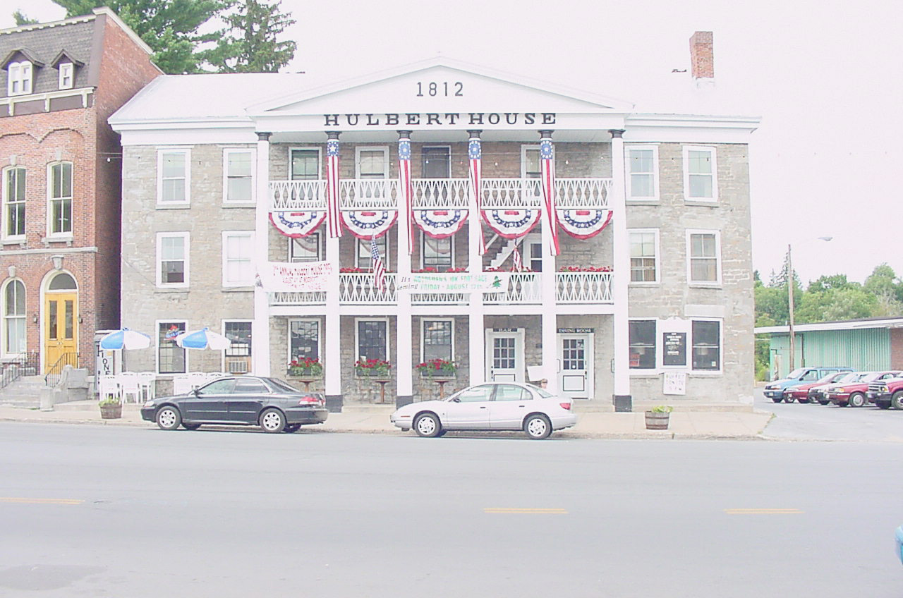 Created by Cafeirlandais